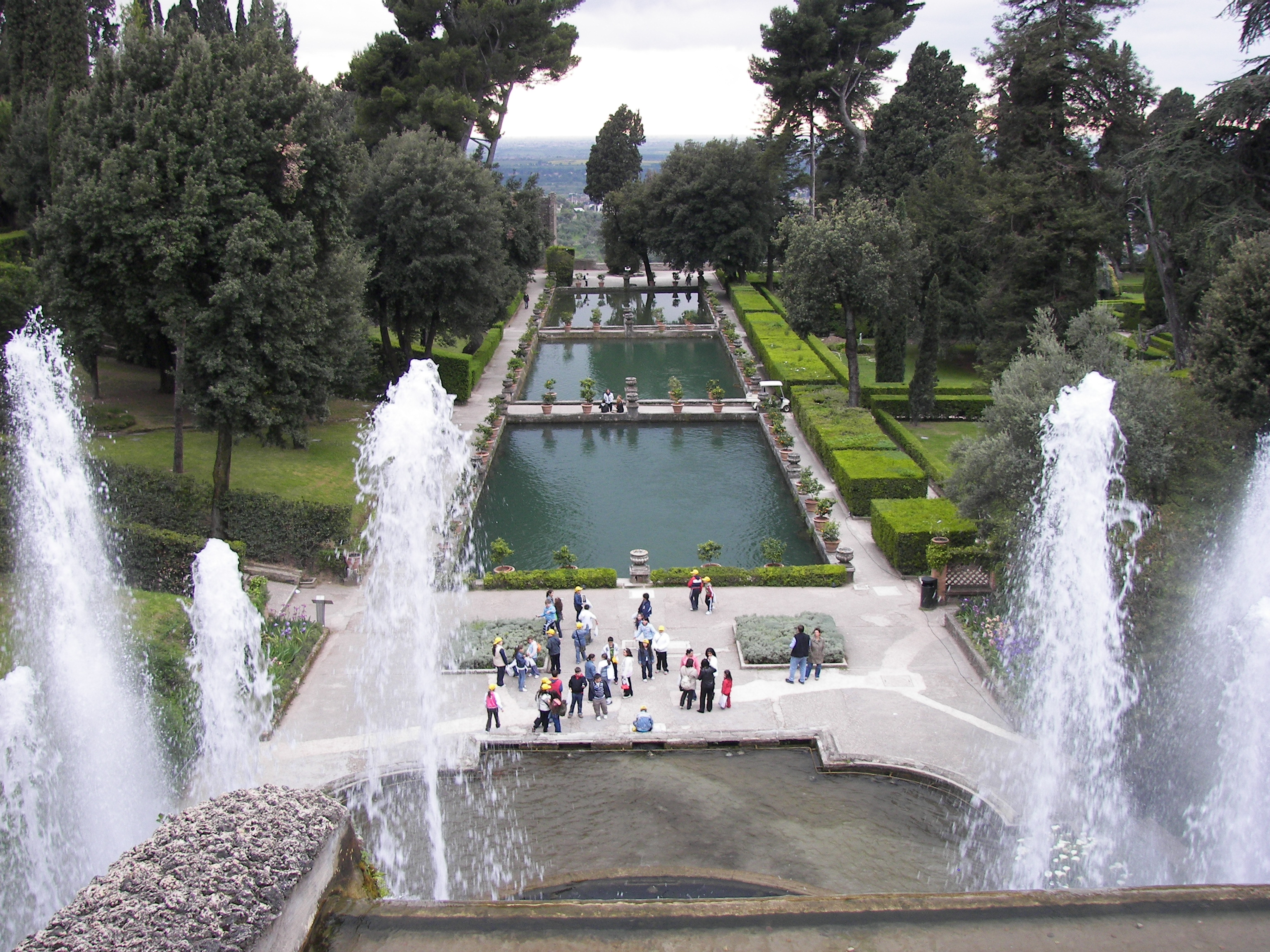 Fountain and pools at Villa d'Este in Tivoli.